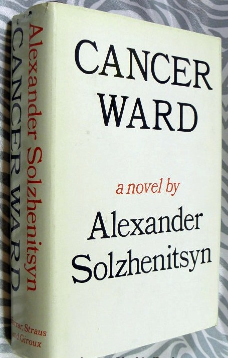 Aleksandr Solzhenitsyn, Cancer Ward, Farrar, Straus and Giroux, 1969.